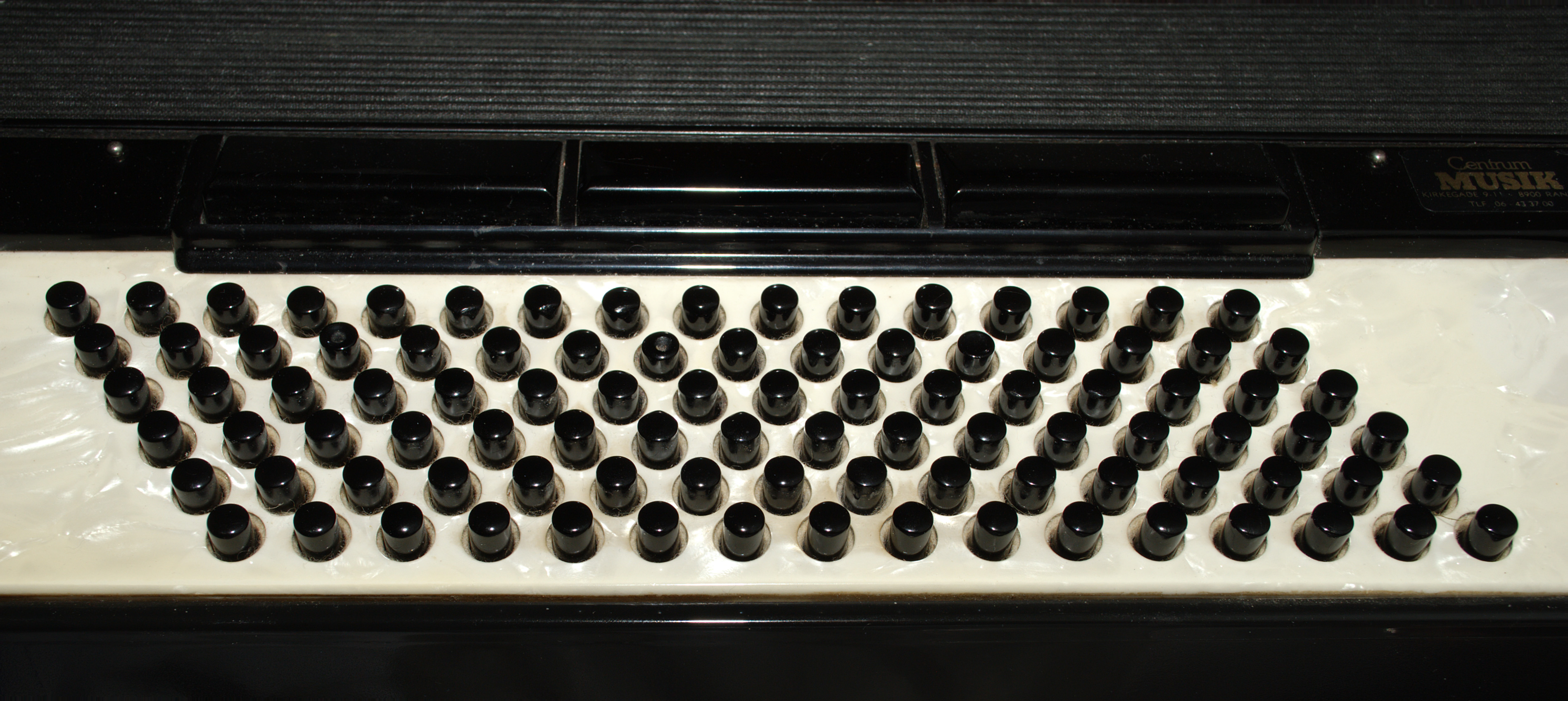 A photographic preview of a 96-button Stradella bass layout.